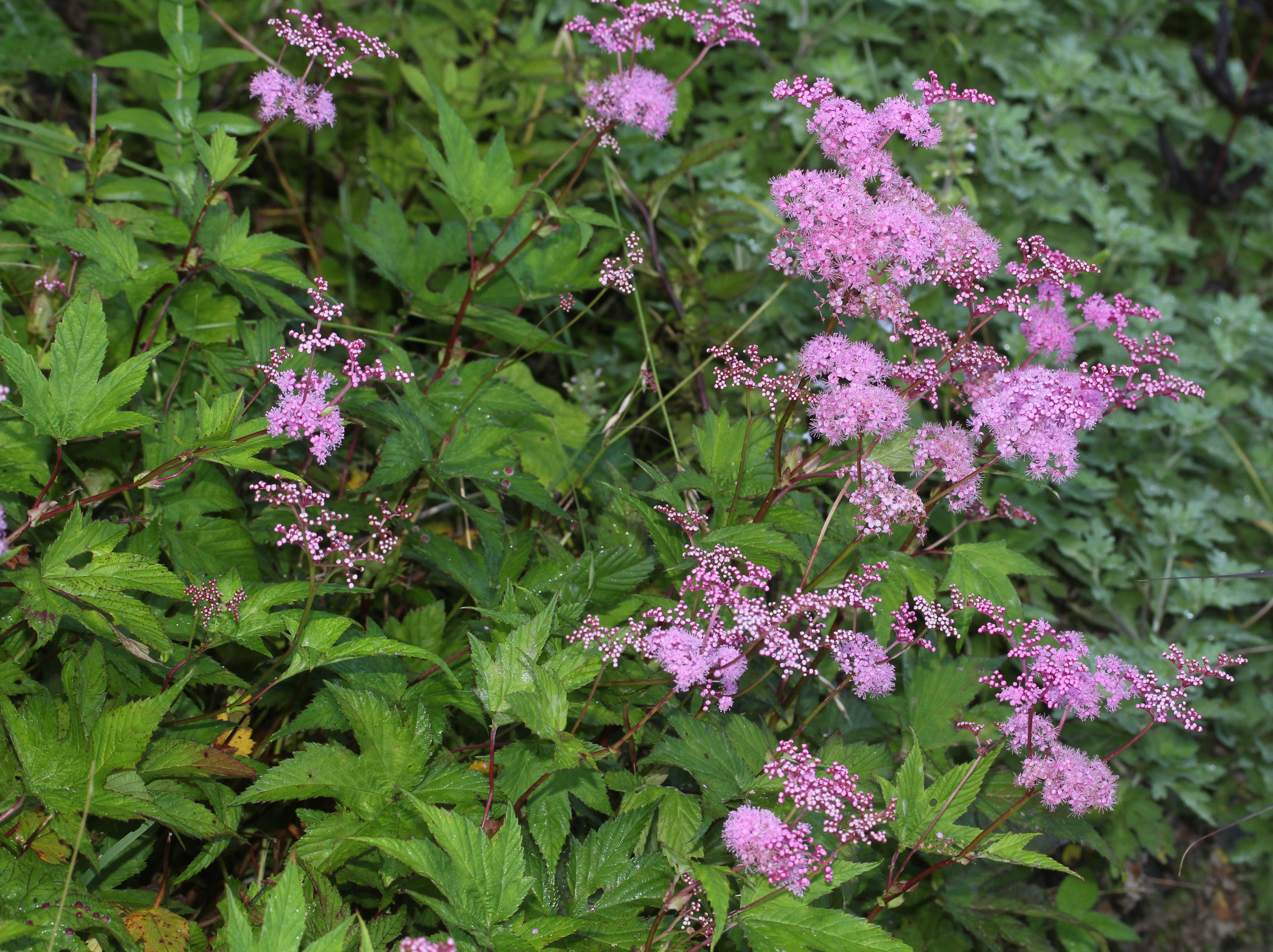 Filipendula multijuga in Mount Ibuki, Maibara, Shiga Prefecture, Japan.